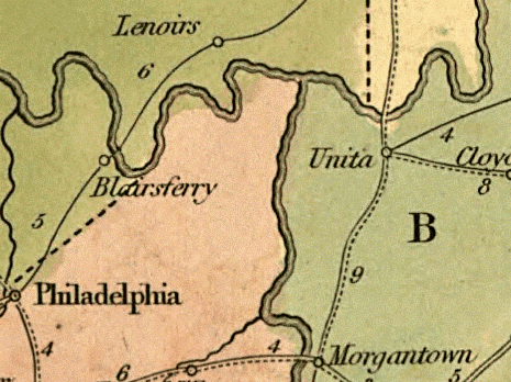 1839-era map showing what is now Loudon County in the U.S. state of Tennessee. "Lenoirs" refers to the Lenoir family estate, now Lenoir City. "Blairs Ferry" is now Loudon. "Morgantown" (Morganton) is now submerged by Tellico Lake, but roughly corresponds to modern Greenback.